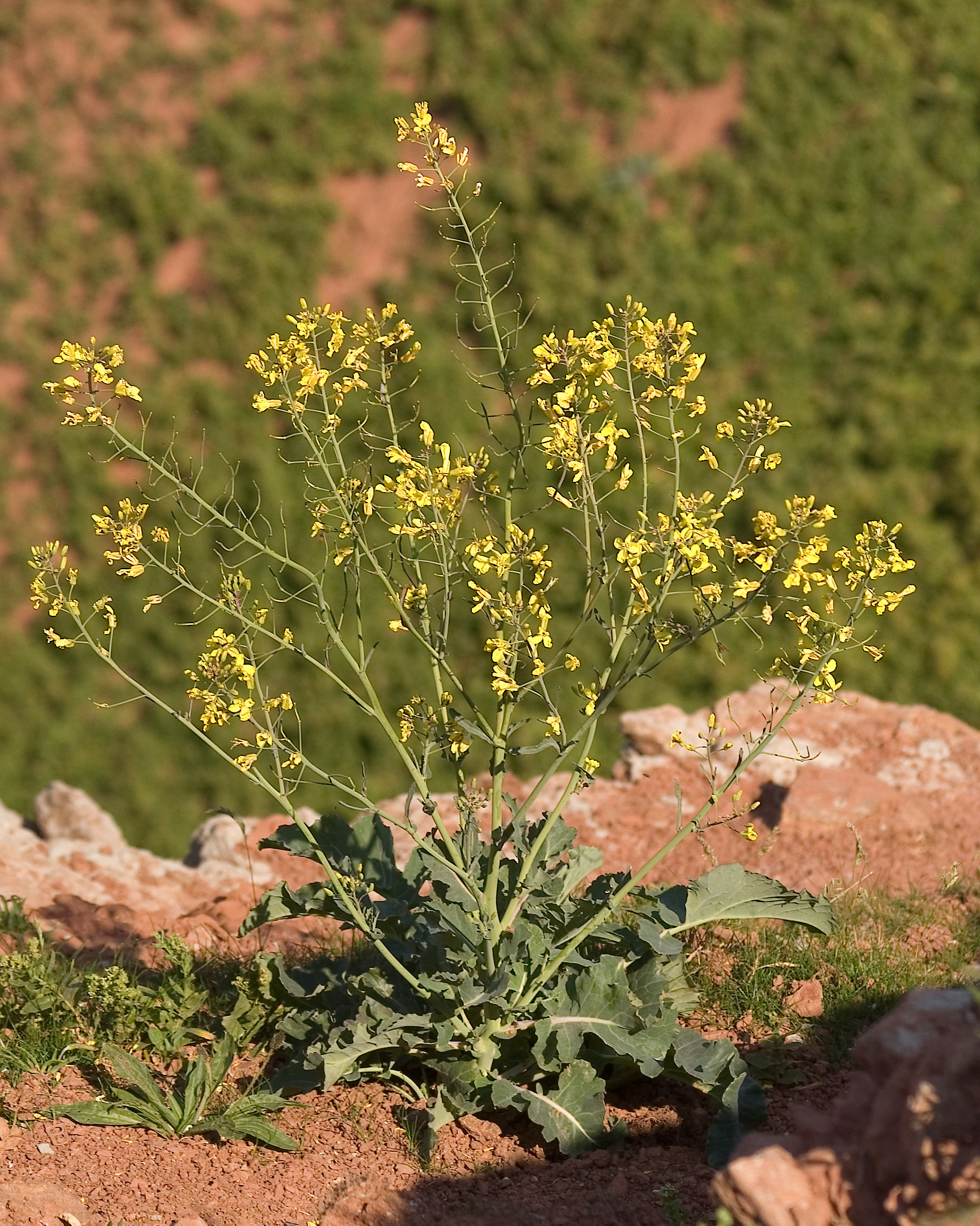 Please report references to kulacgmx.at.